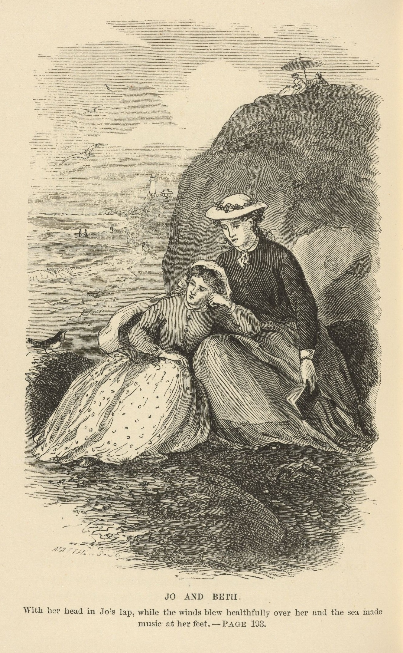 Illustration from: Little Women, volume II, by Louisa May Alcott (1832-1888). Boston: Roberts Brothers, 1869. *AC85.Aℓ194L.1869 pt.2aa, Houghton Library, Harvard University